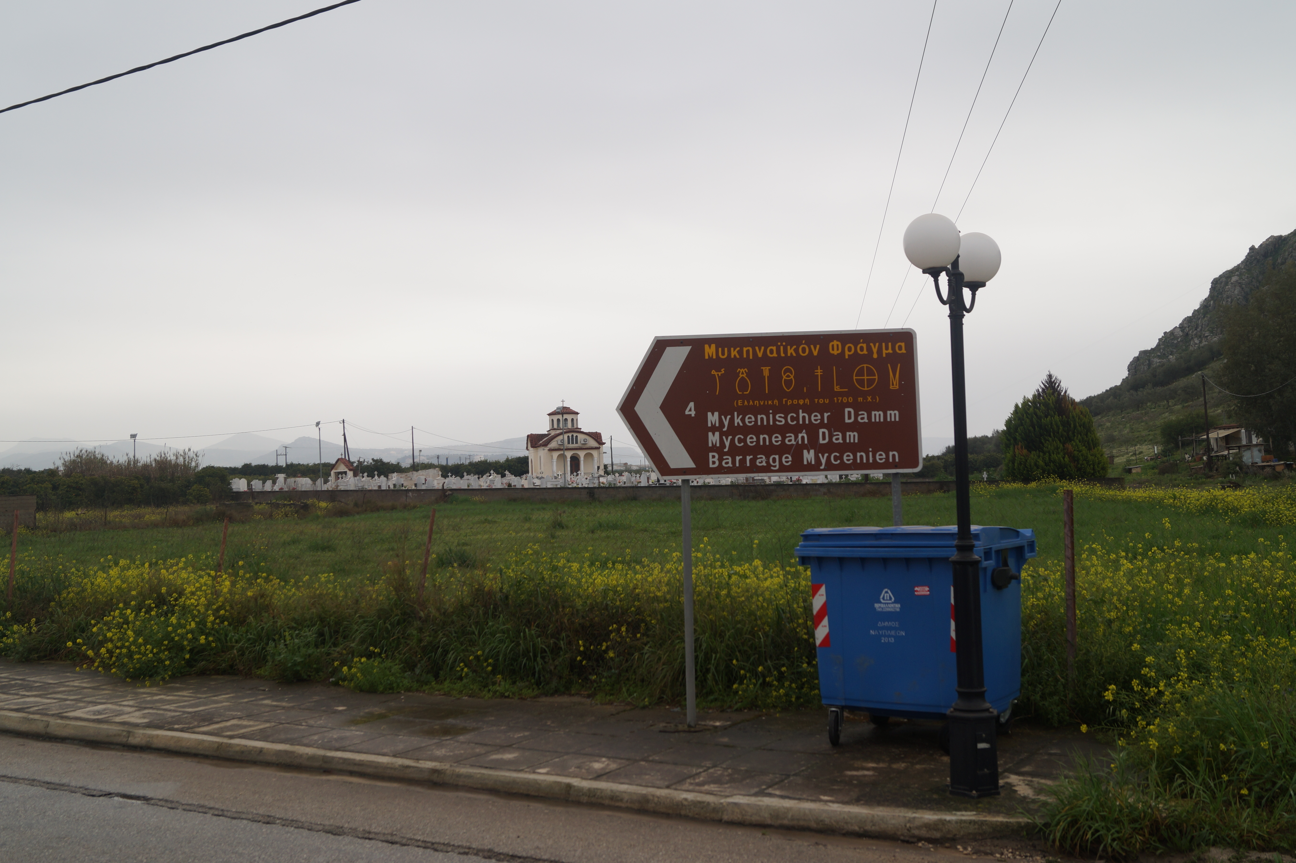 Nea Tiryntha, Greece: Signpost to the dam of Tiryns with linear B signs.